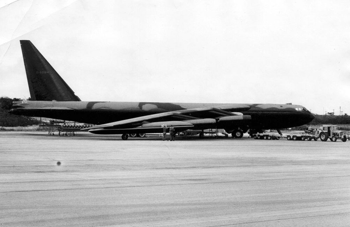 A U.S. Air Force Boeing B-52D-60-BO Stratofortress (s/n 55-0104) of the 484th Bomb Wing, at Andersen Air Force Base, Guam, on 20 March 1966. This aircraft was retired to the MASDC as BC0284 on 27 May 1982 and was later scrapped.